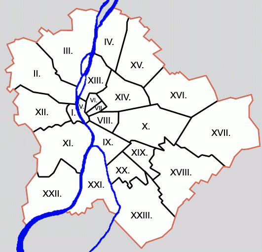 Districts of Budapest. Made by me (User:Adam78), based on pictures by User:Totya, eg converted into PNG. (This version is for the Hungarian version, since a dot is used after ordinal numbers in Hungarian.)